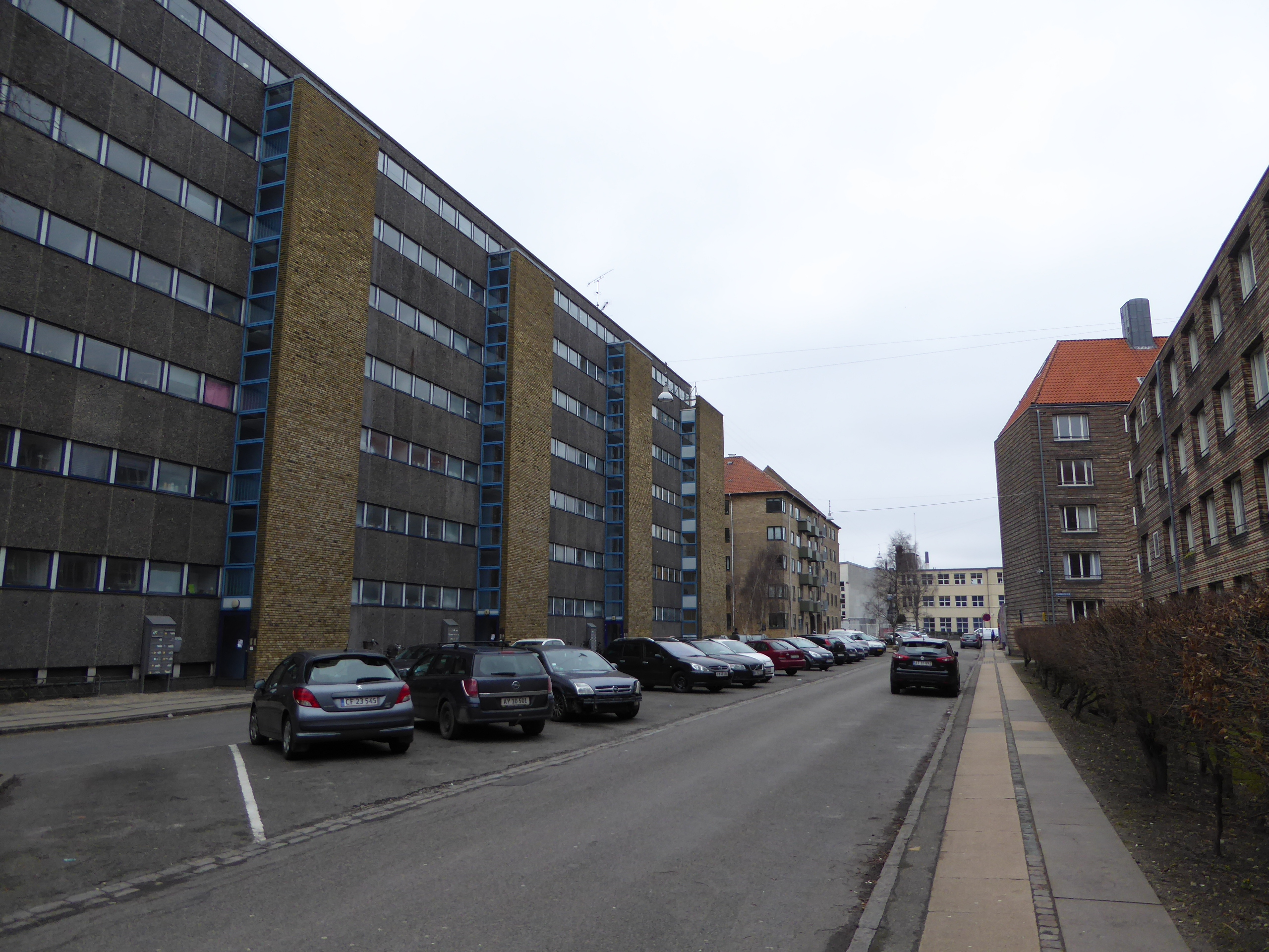 The street Fogedmarken in Nørrebro in Copenhagen.